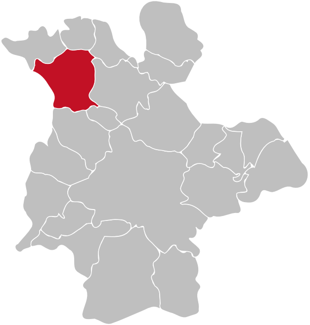 Location of the district Langenholdinghausen within Siegen, Germany. Red/Grey colors match the color scheme of Germany maps and information boxes in German Wikipedia. District is highlighted in red.